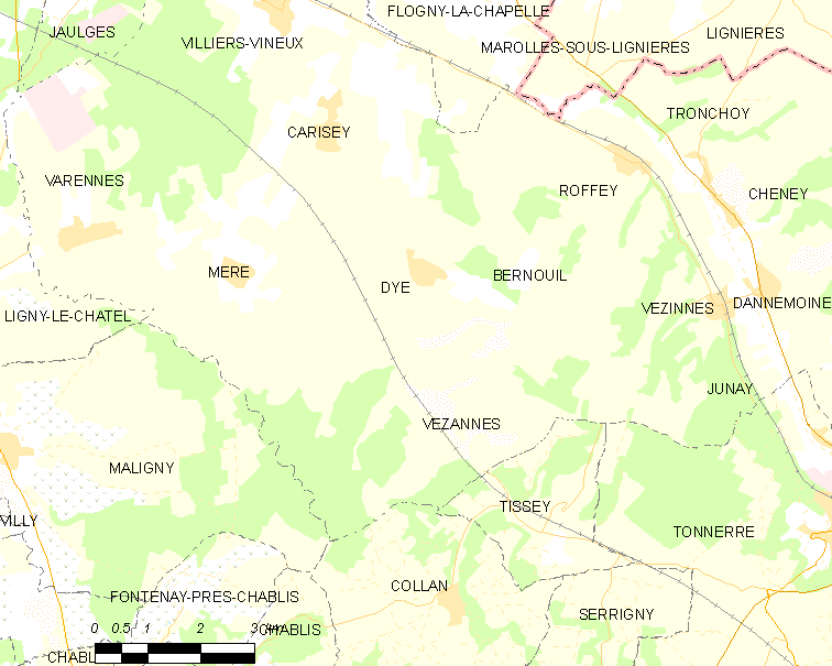 Map of French municipality Dyé